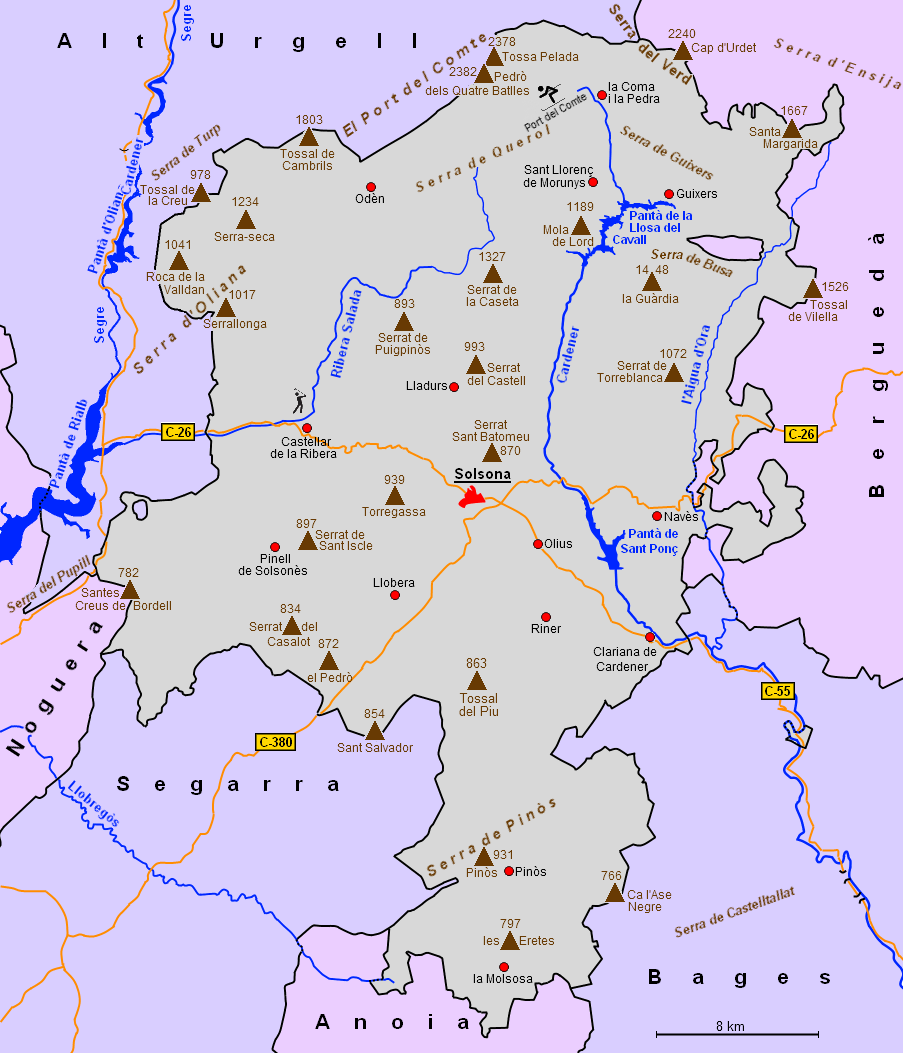 Map of the comarca Solsonès, Catalonia, Spain